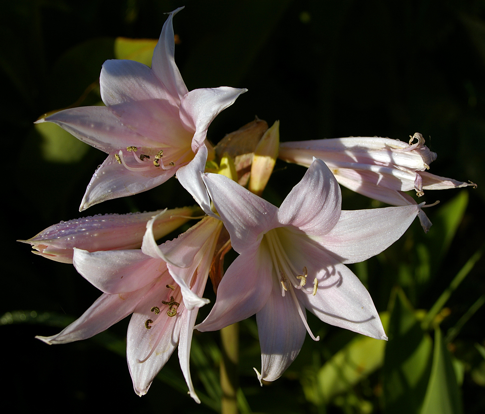 Amaryllis belladonna flowers. Photographed in Wagga Wagga, New South Wales. Because this photograph concerns privacy since this was taken on a private property, only an approximate location is provided: Wagga Wagga, New South Wales, Australia